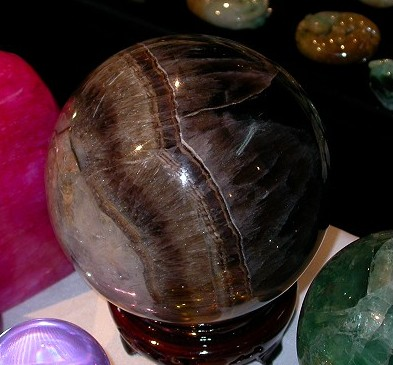 amethyst fluorite sphere, 紫水晶螢石